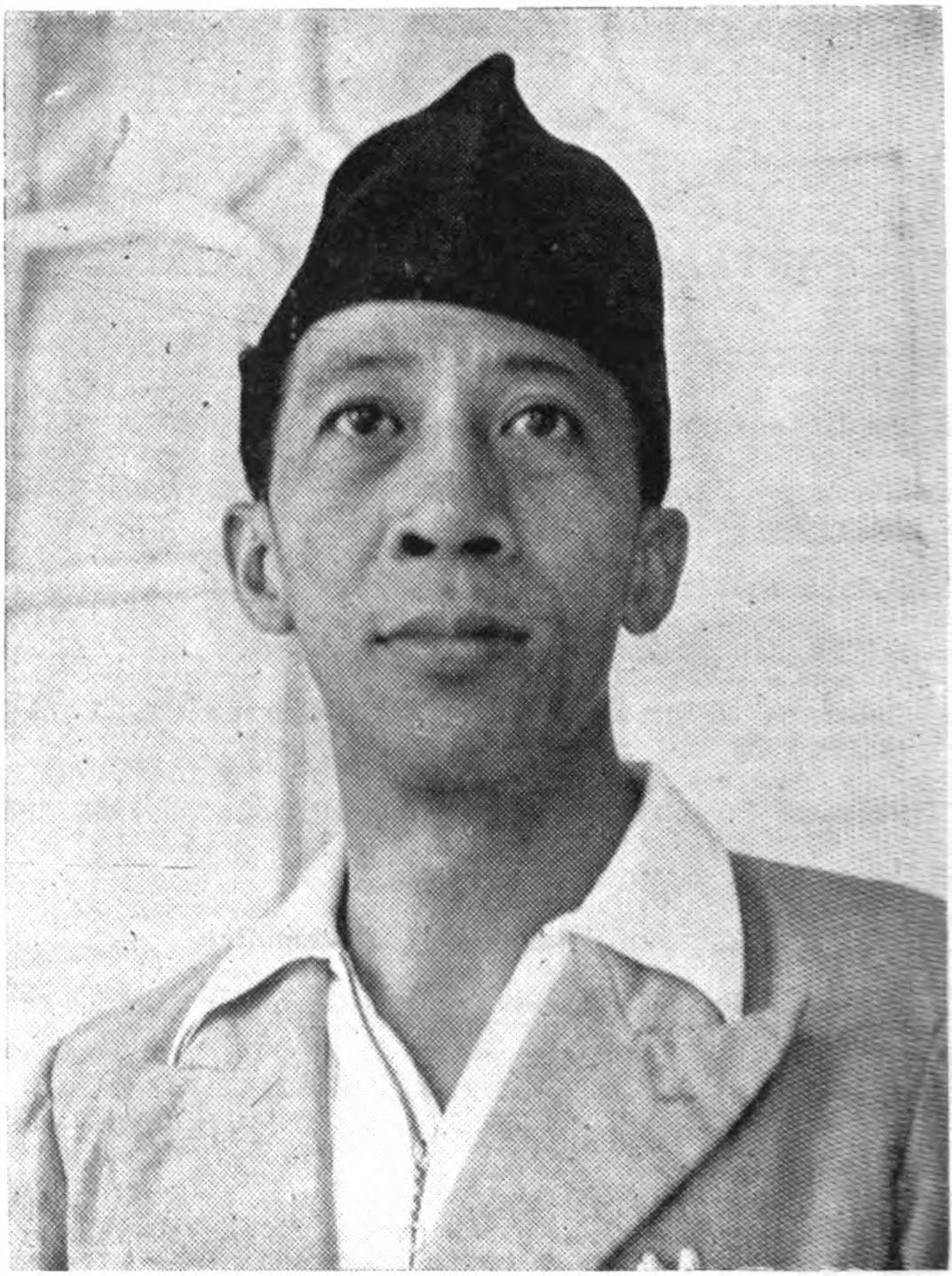 Portrait of Anwar Tjokroaminoto.